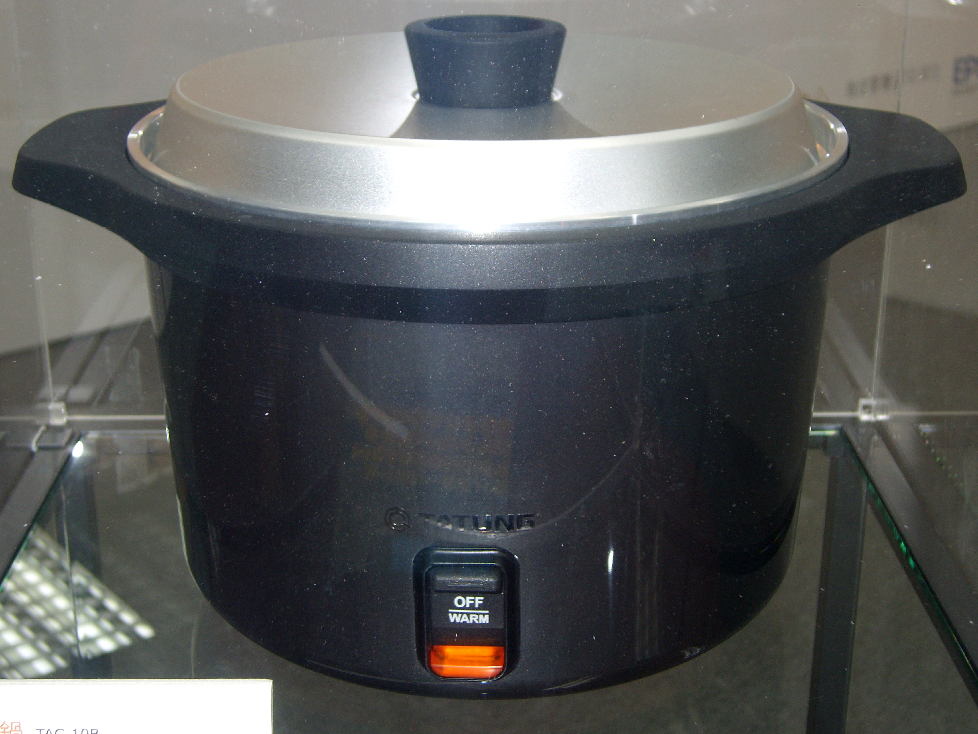 2008 Young Designers' Exhibition - iF Design Pavilion: Tatung TAC-10B.